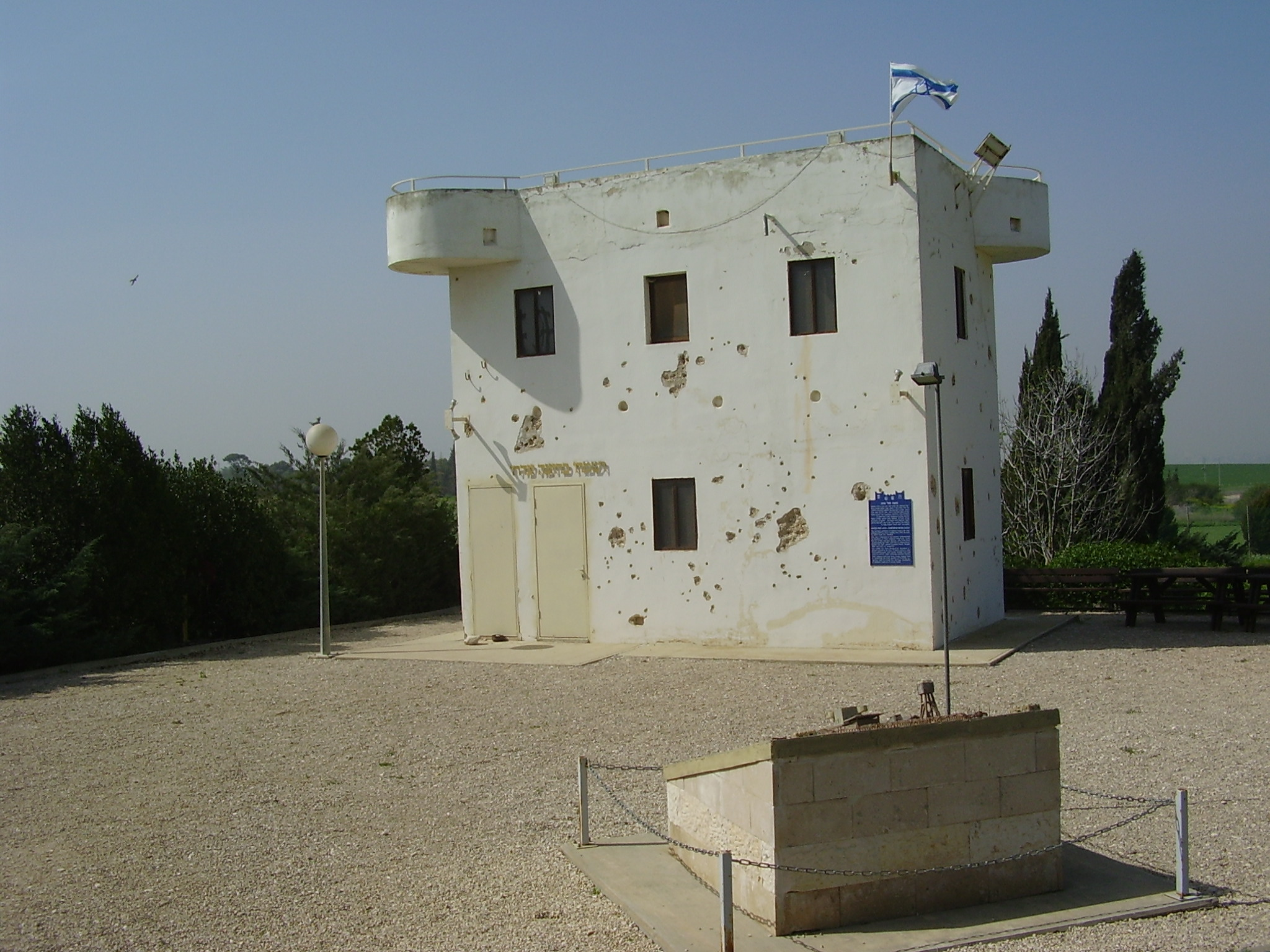 old security house of kibbutz sa'ad in the independence war (1948) " בית הבטחון הישן של קיבוץ סעד המשמש כיום כמוזיאון היסטורי "מעוז מול עזה במקומו הראשון של קיבוץ סעד